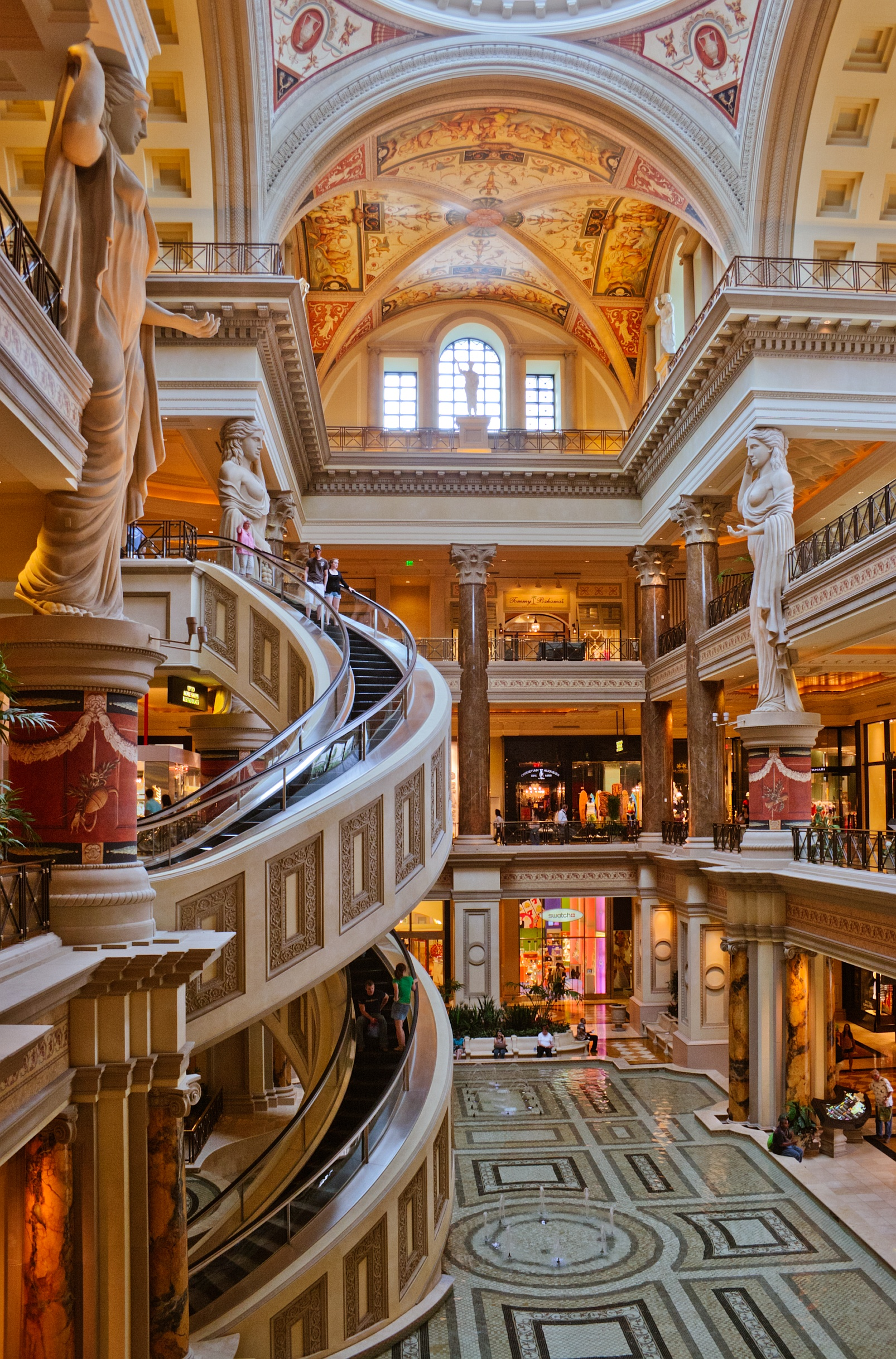 The Phase III Expansion (opened on October 22, 2004) entrance hall features a spiral escalator.